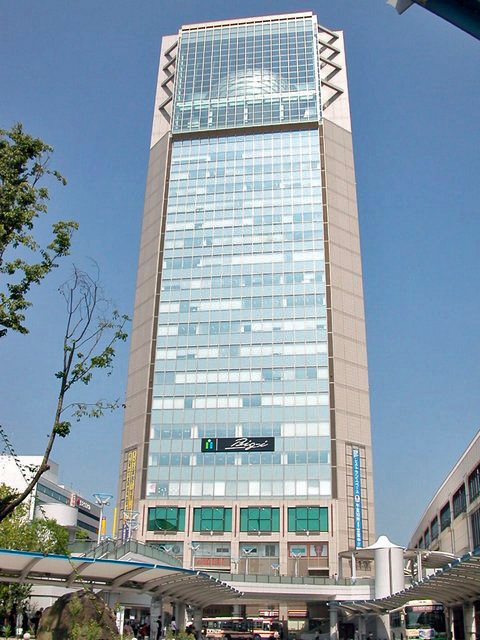 Big-i in Koriyama City, Fukushima Prefecture, Japan